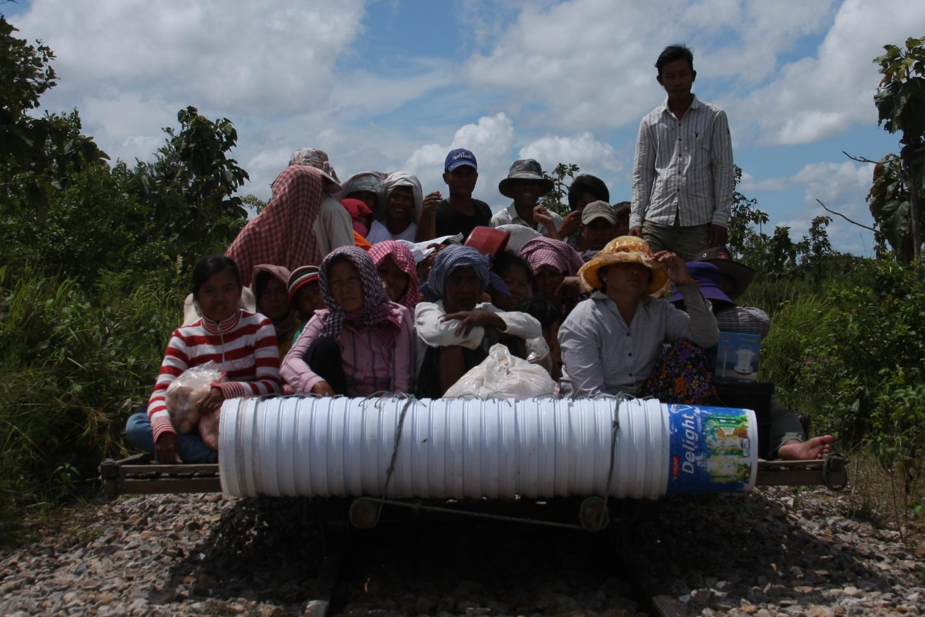 Bamboo train in Cambodia (Norry, Nori, Lorry)